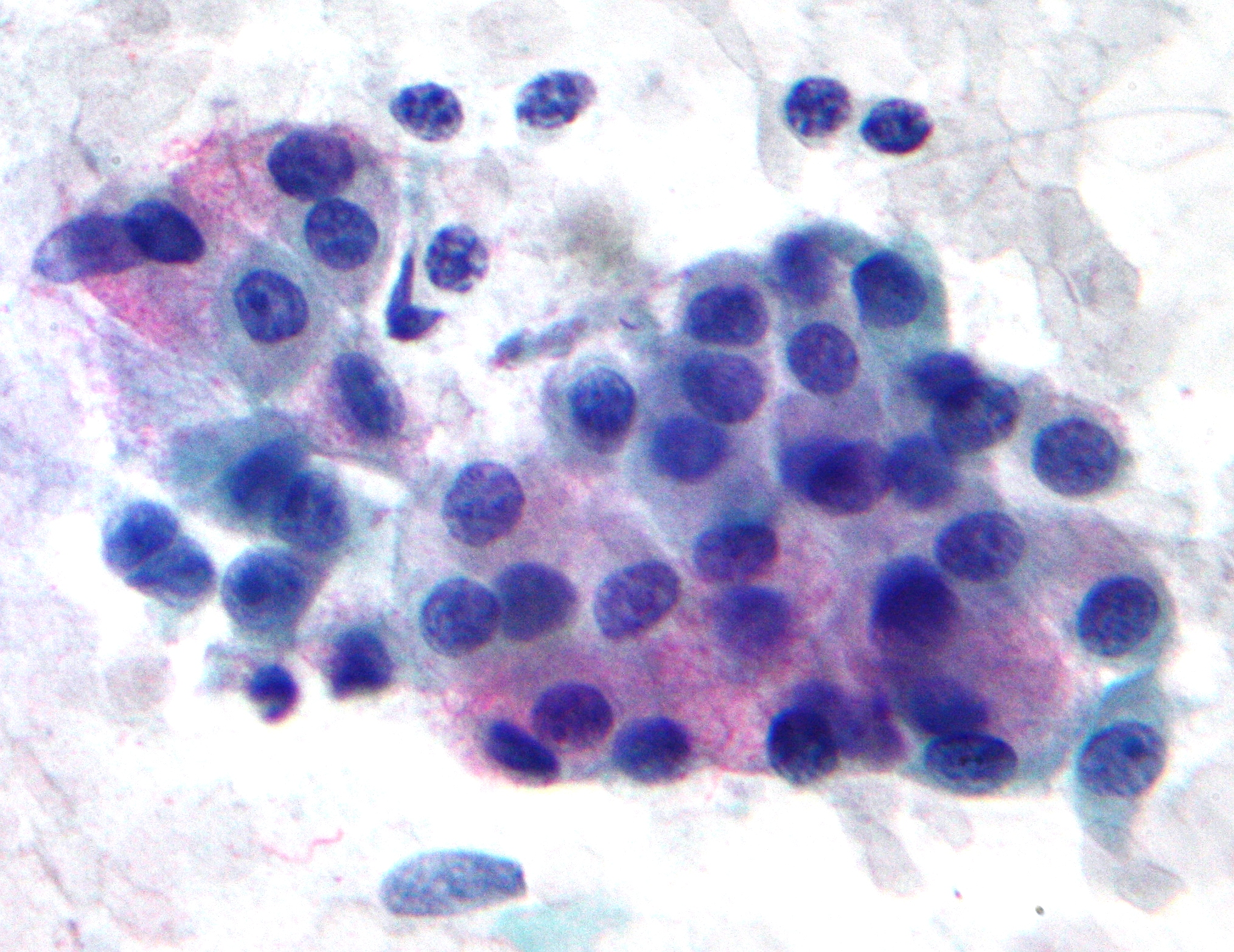 Micrograph of a mucoepidermoid carcinoma. FNA specimen. Pap stain. Mucoepidermoid carcinoma is the most common malignant neoplasm of the salivary glands. Related images Mucoepidermoid carcinoma - lower mag. Adenoid cystic carcinoma. Acinic cell carcinoma.